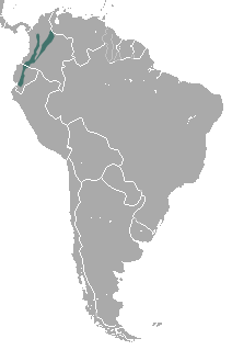 Silky Shrew Opossum (Caenolestes fuliginosus) range